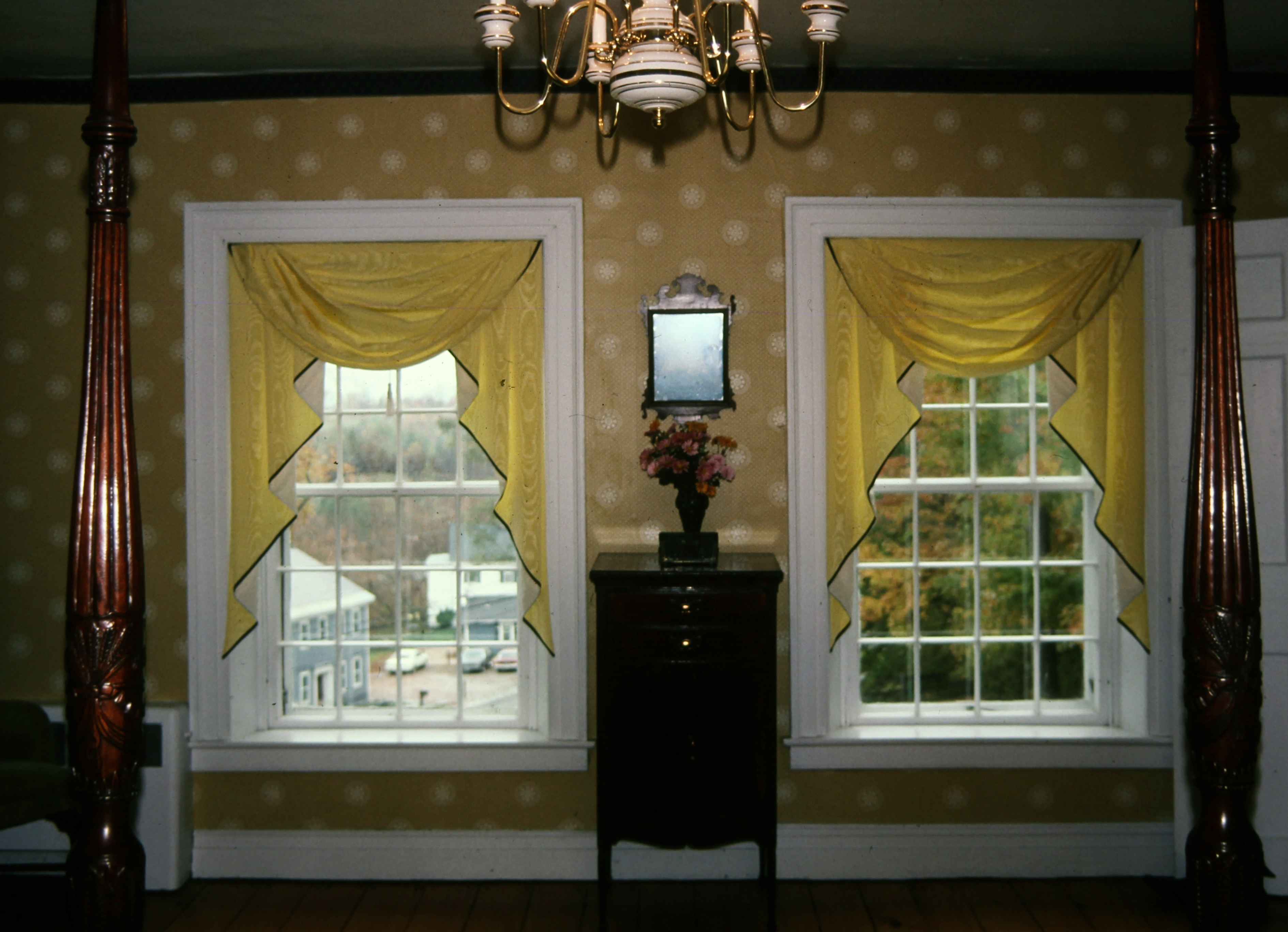 A photo I took showing view of village below from upstairs front windows in the Master Bedroom of the Galusha House, Jericho, VT